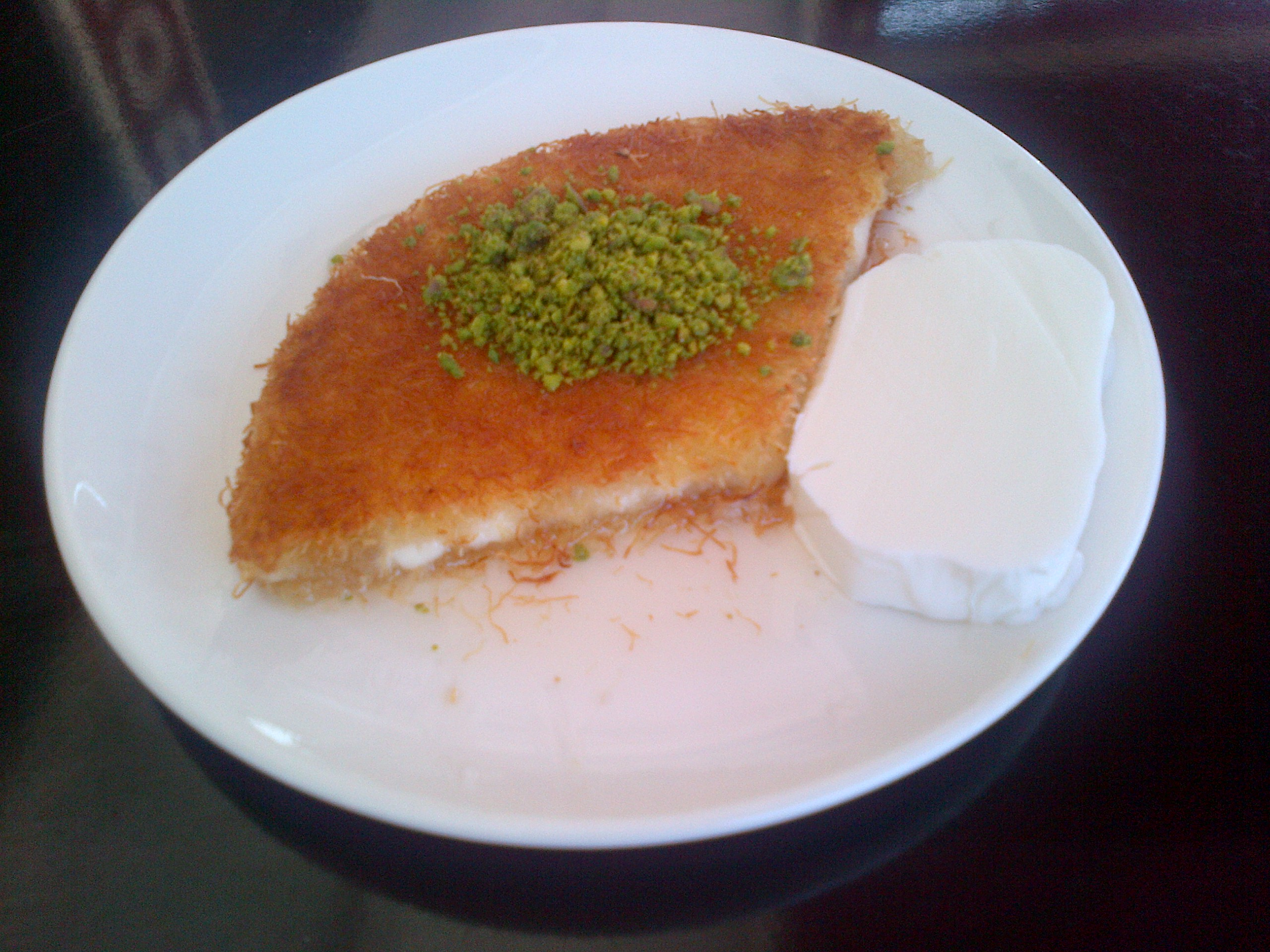 Turkish "künefe" with "dövme dondurma".